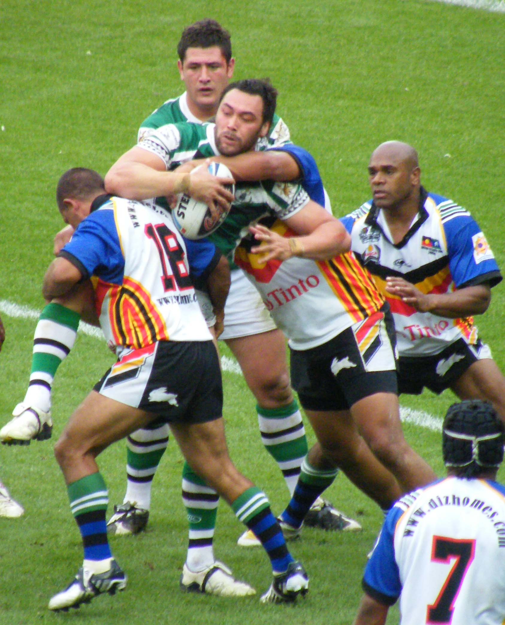 Wairangi Koopu is well tackled. RLWC 2008 - Aboriginal Dreamtime Team versus New Zealand Maori.